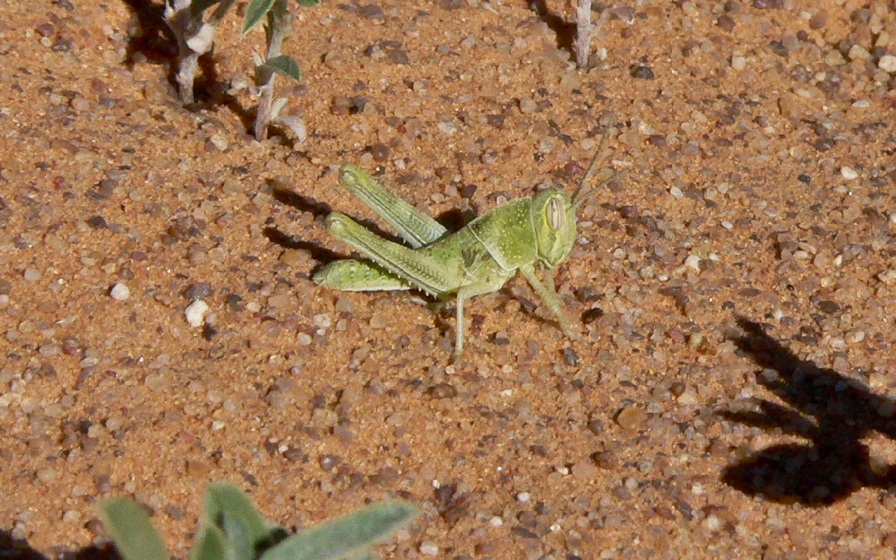 Solitary phase hopper of desert locust, Schistocerca gregaria, photographed near Benishab, Mauritania